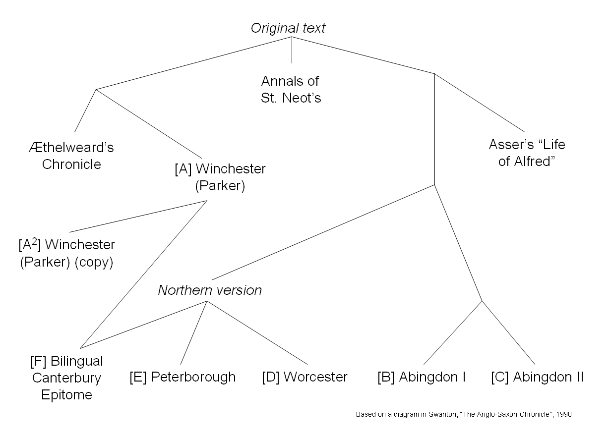 This diagram is based on a diagram in Michael Swanton, "The Anglo-Saxon Chronicles", Routledge, 1998, ISBN 0-415-92129-5. The diagram in Swanton provided essentially all the information in this diagram but it has been redrawn and laid out differently. The diagram shows the relationships between the different manuscripts of the Anglo-Saxon Chronicles.